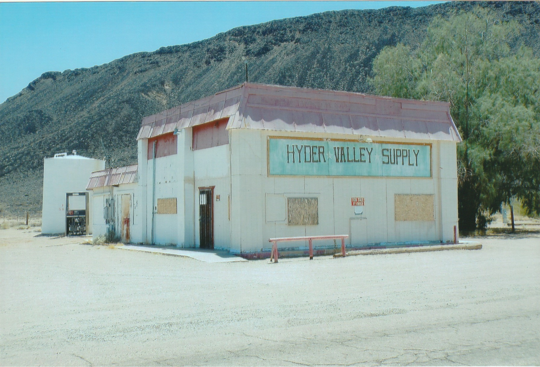 Abandoned building in Hyder, Arizona